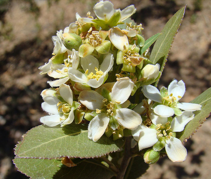 One of the species known as Chacaye in the mountains of central Chile. In context at